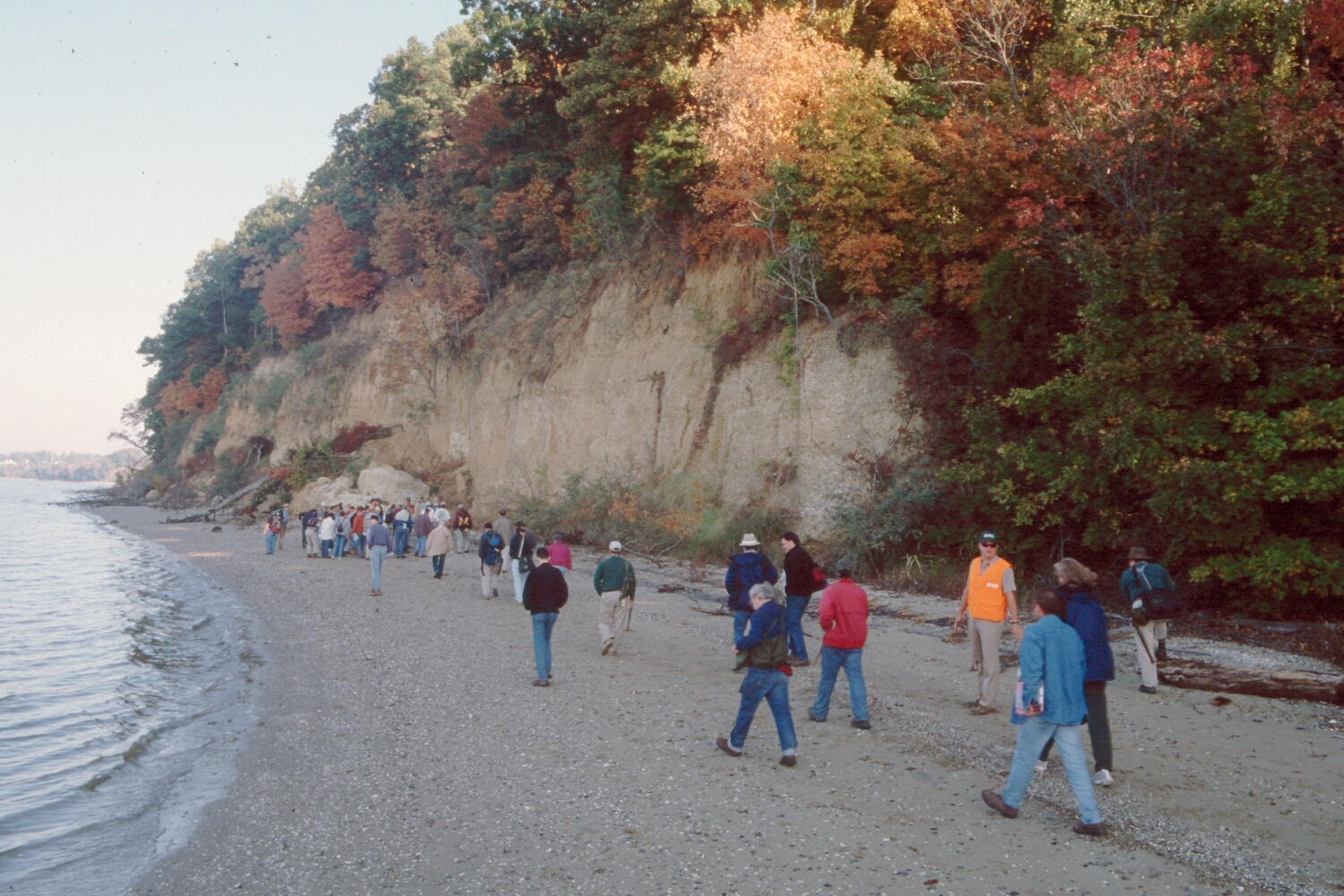 Outcop of Pliocene Yorktown Formation at Carters Grove Bluffs along the James River, Virginia. Taken 2001. Geologists in foreground.